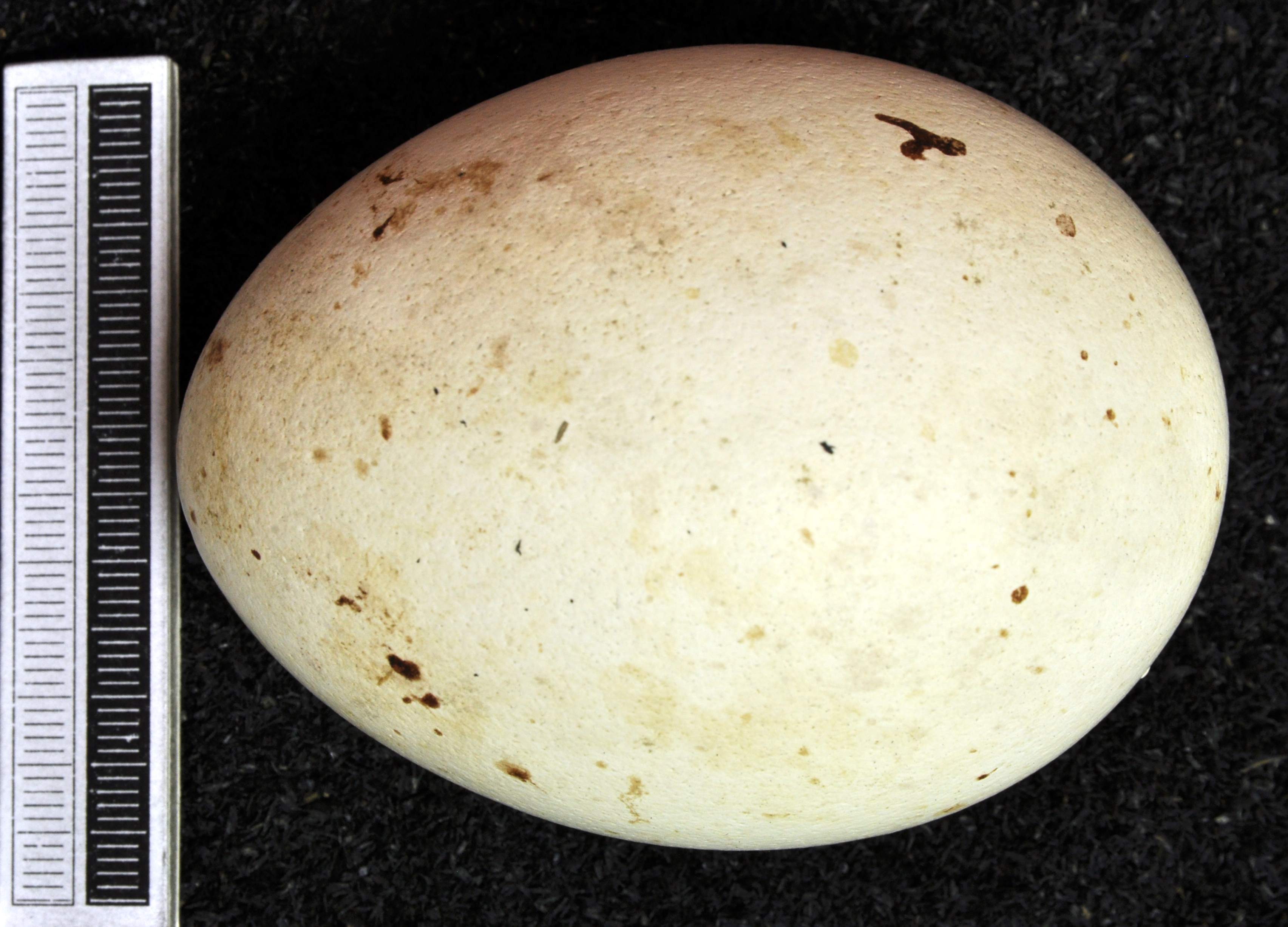 Eastern imperial eagle Aquila heliaca , egg, Coll. Museum Wiesbaden